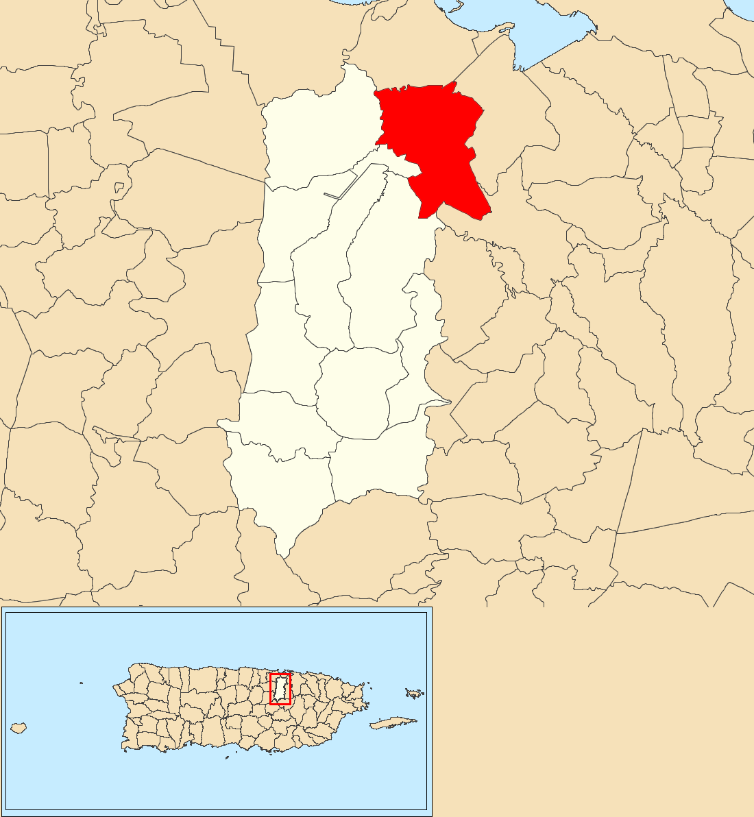 Juan Sánchez, Bayamón, Puerto Rico locator map